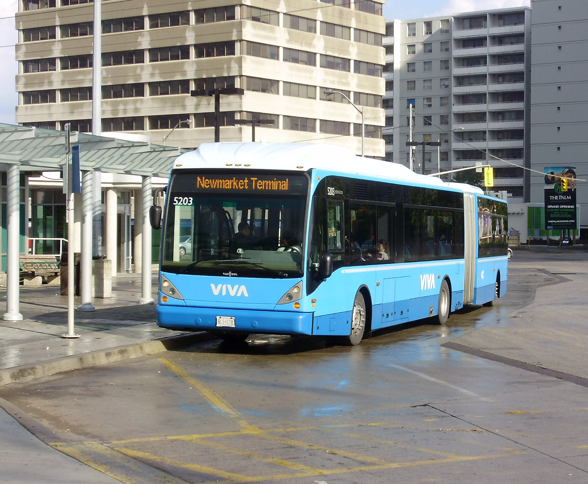 Viva Blue bus 5203, a Van Hool newAG300 articulated bus, taking on passengers at Finch Bus Terminal in North York, Ontario and bound for Newmarket Terminal.